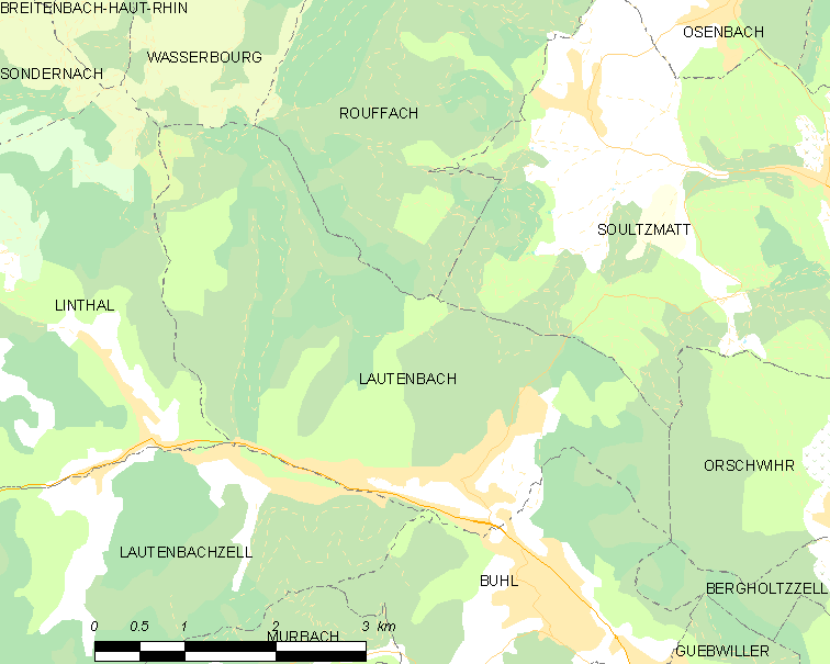 Map of French municipality